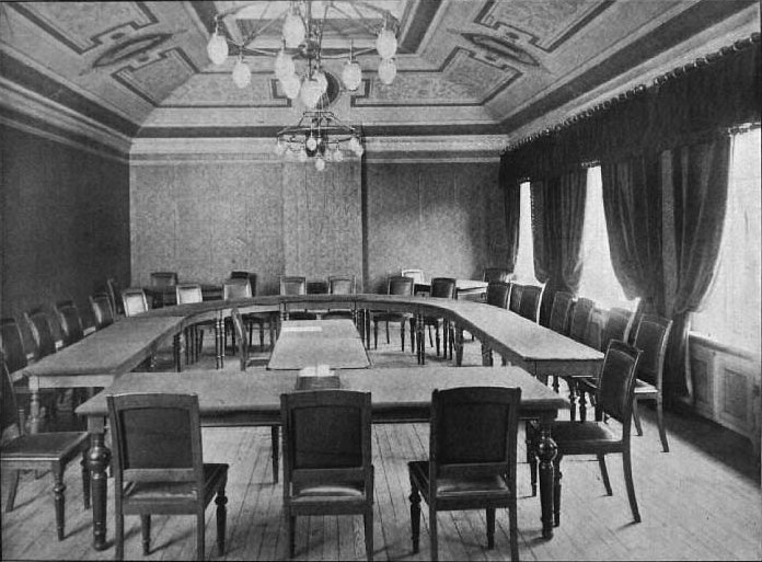 HQ of Østifternes Kreditforening, Nørre Voldgade 5, built 1875-76 by Valdemar Ingemann. 1916 sold to Forsikringsselskabet National. Now N. Zahles Skole. Completely rebuilt 2011-12. The Royal Library.